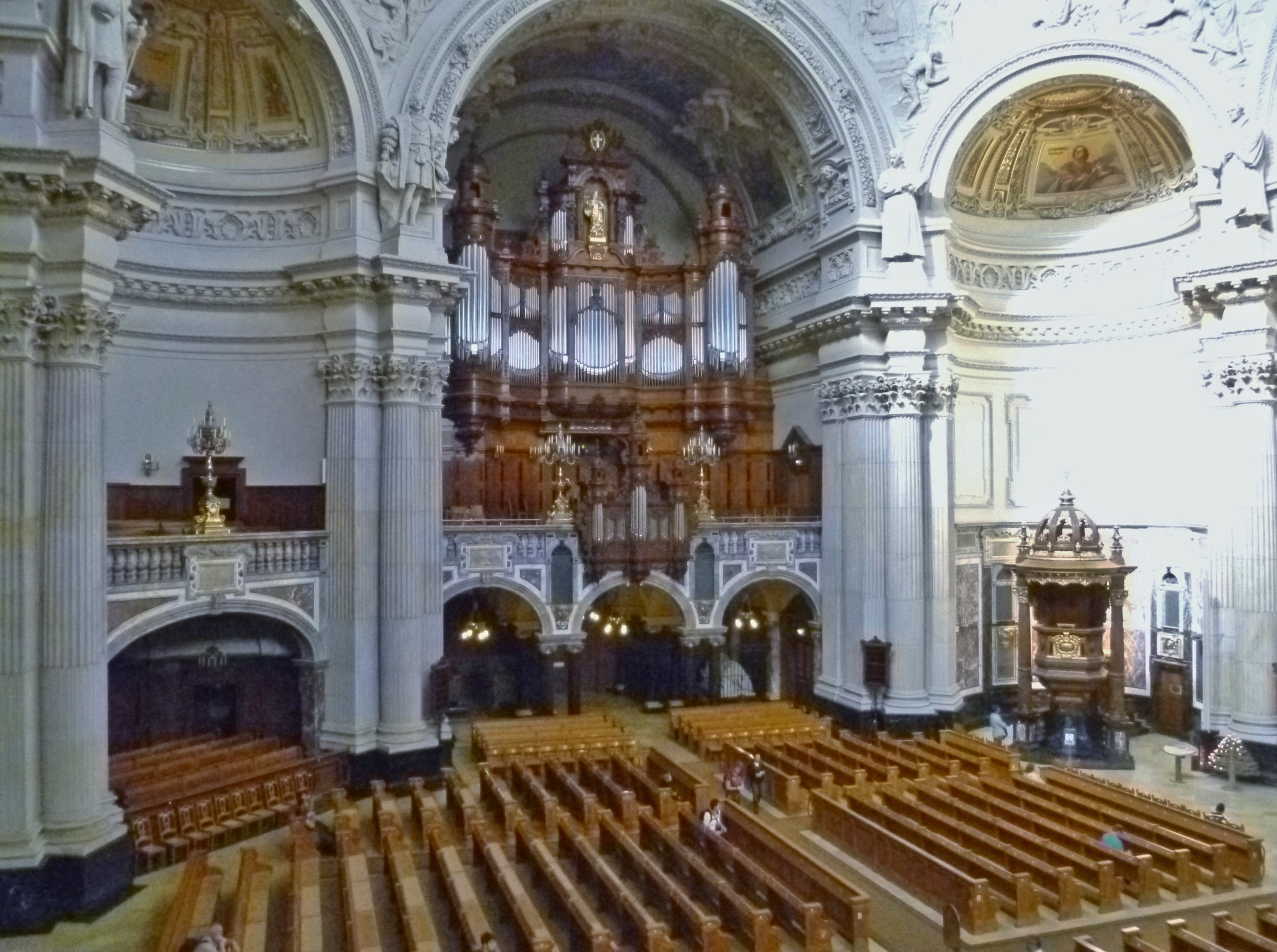 View on the Sauer organ in Berlin Cathedral, Berlin, Germany